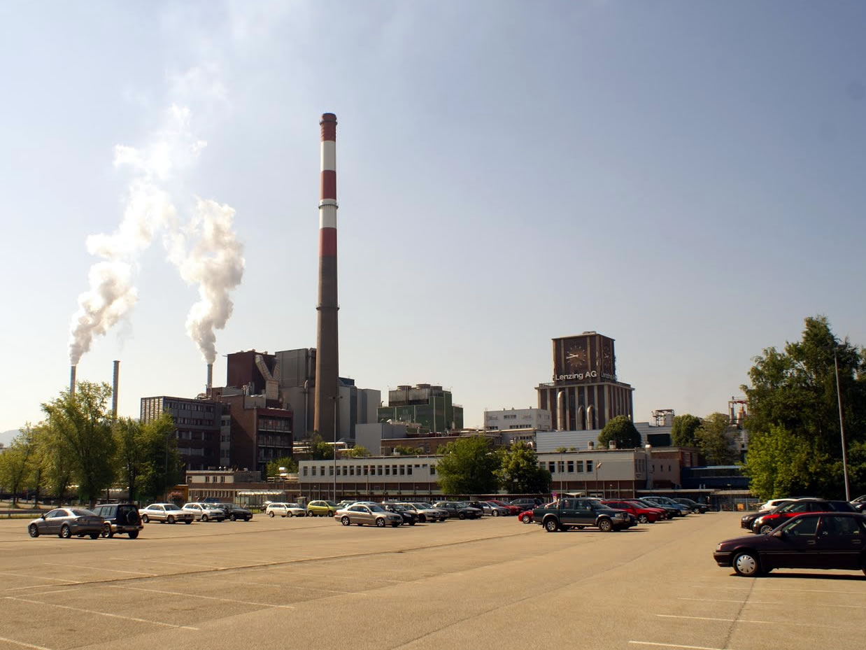 Lenzing AG: Panoramic view of the company's production site in Lenzing, Austria.